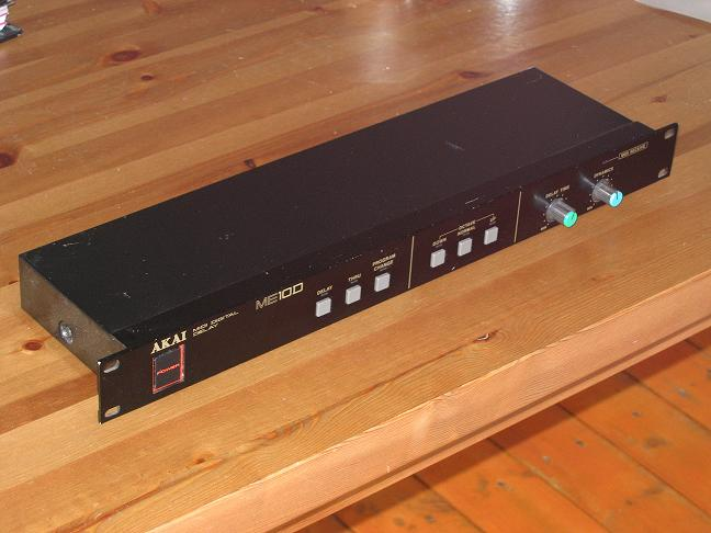 The Akai ME10D 19" Midi delay unit